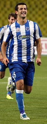 Gia Grigalava with FC Volga Nizhny Novgorod in 2011.